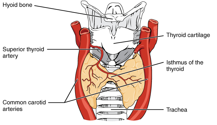 Based off of